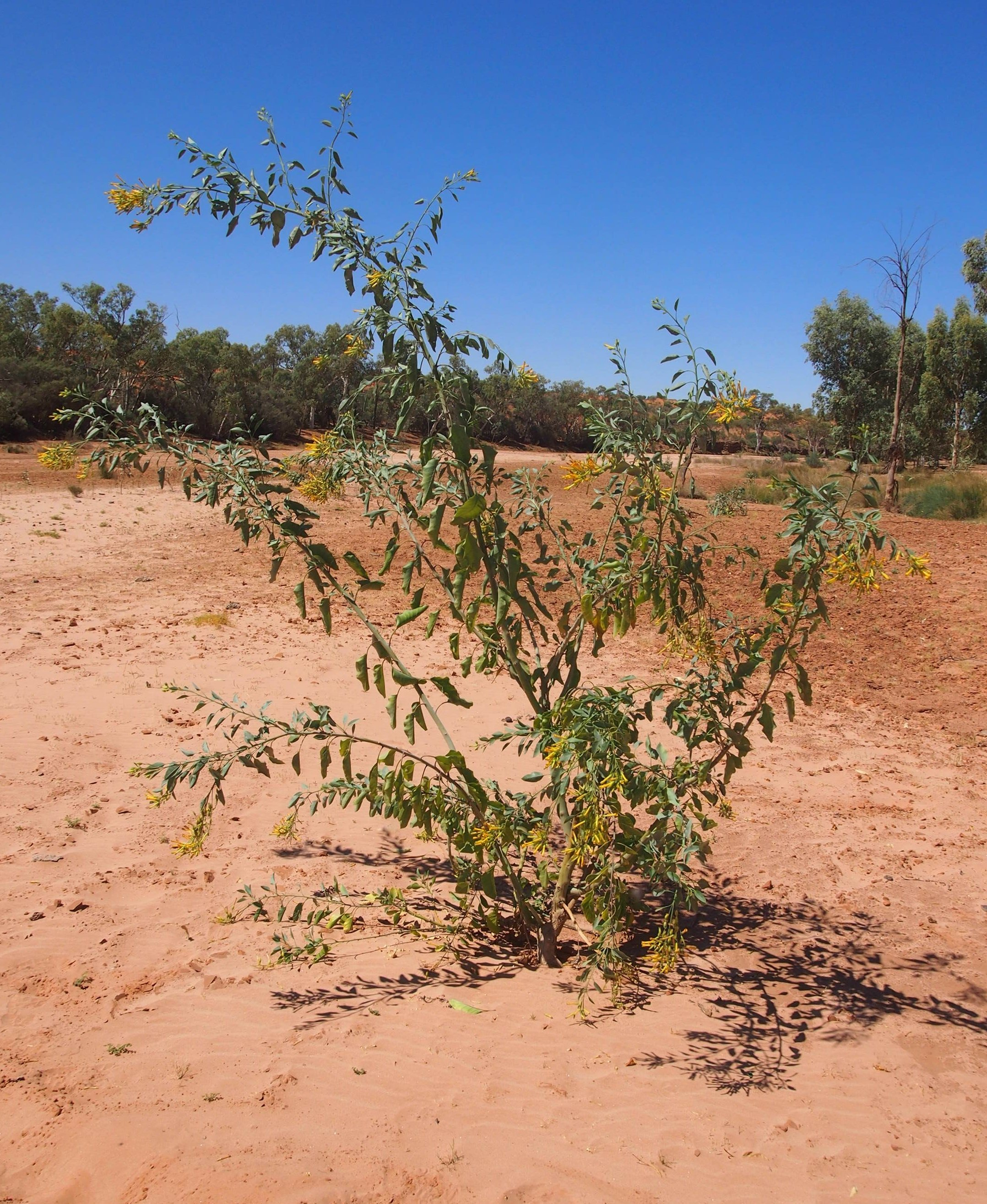 Nicotiana glauca